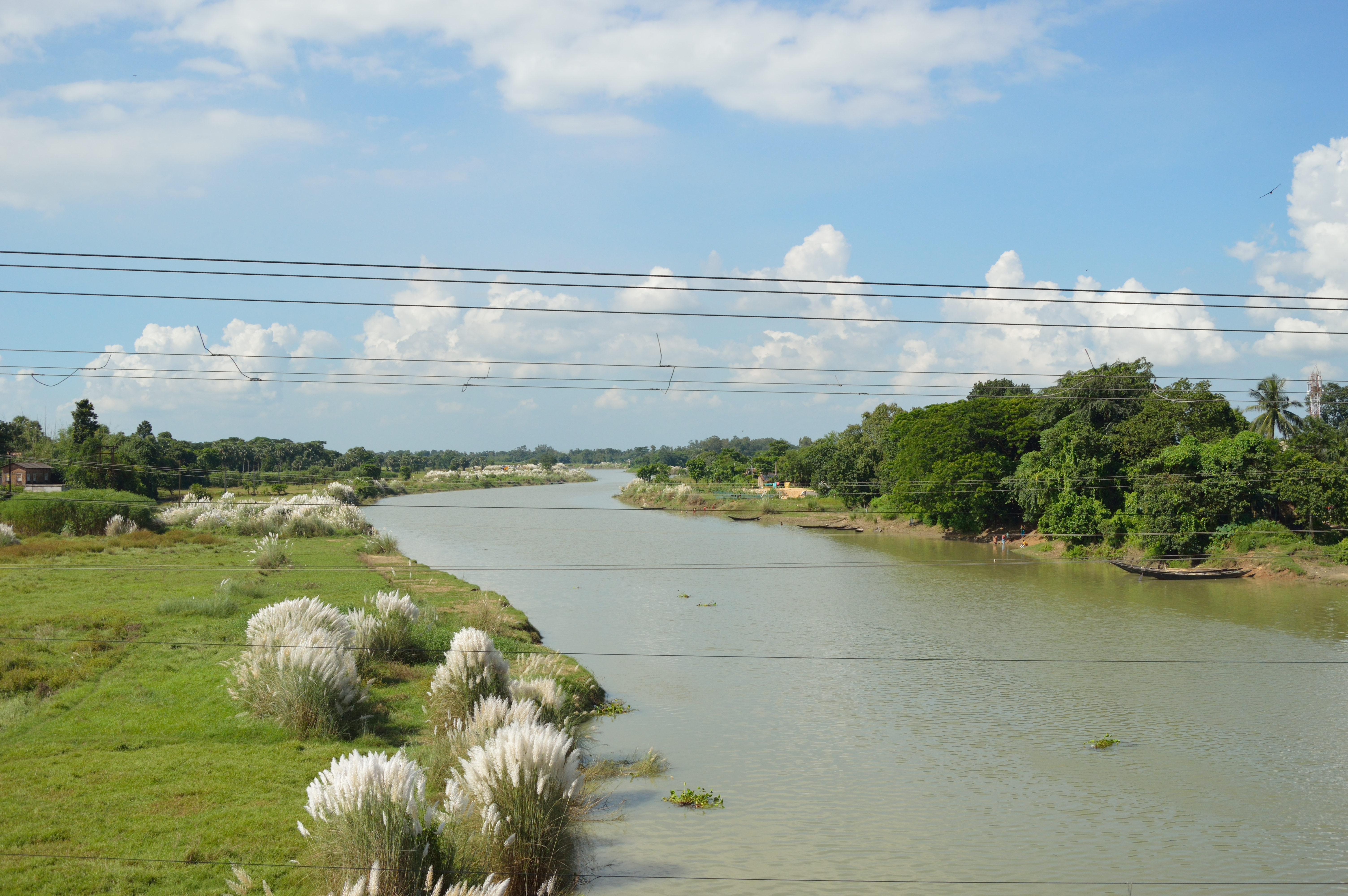 Photographed at Amta, Howrah.